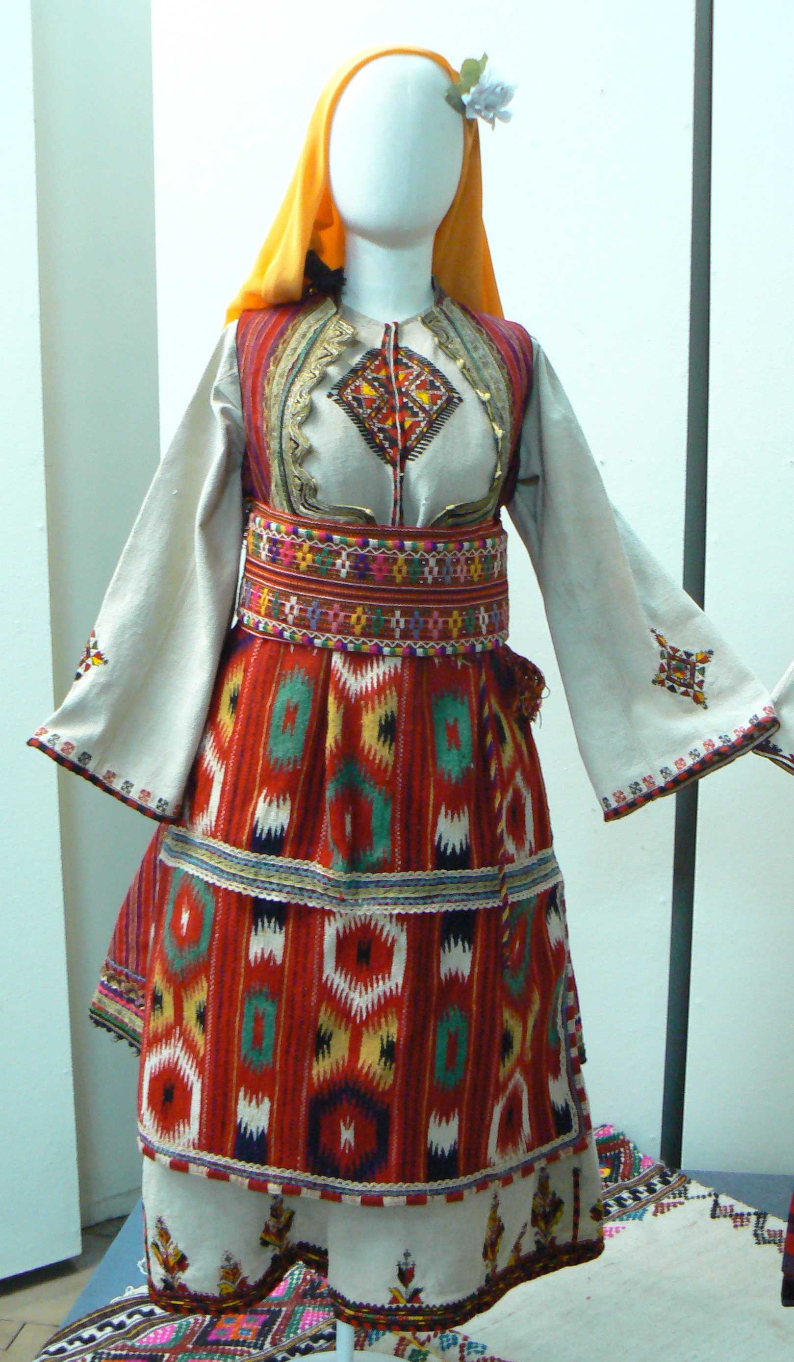 Female costume from Skopje, end of 19th century. Exhibit of the National ethnographic museum of Bulgaria